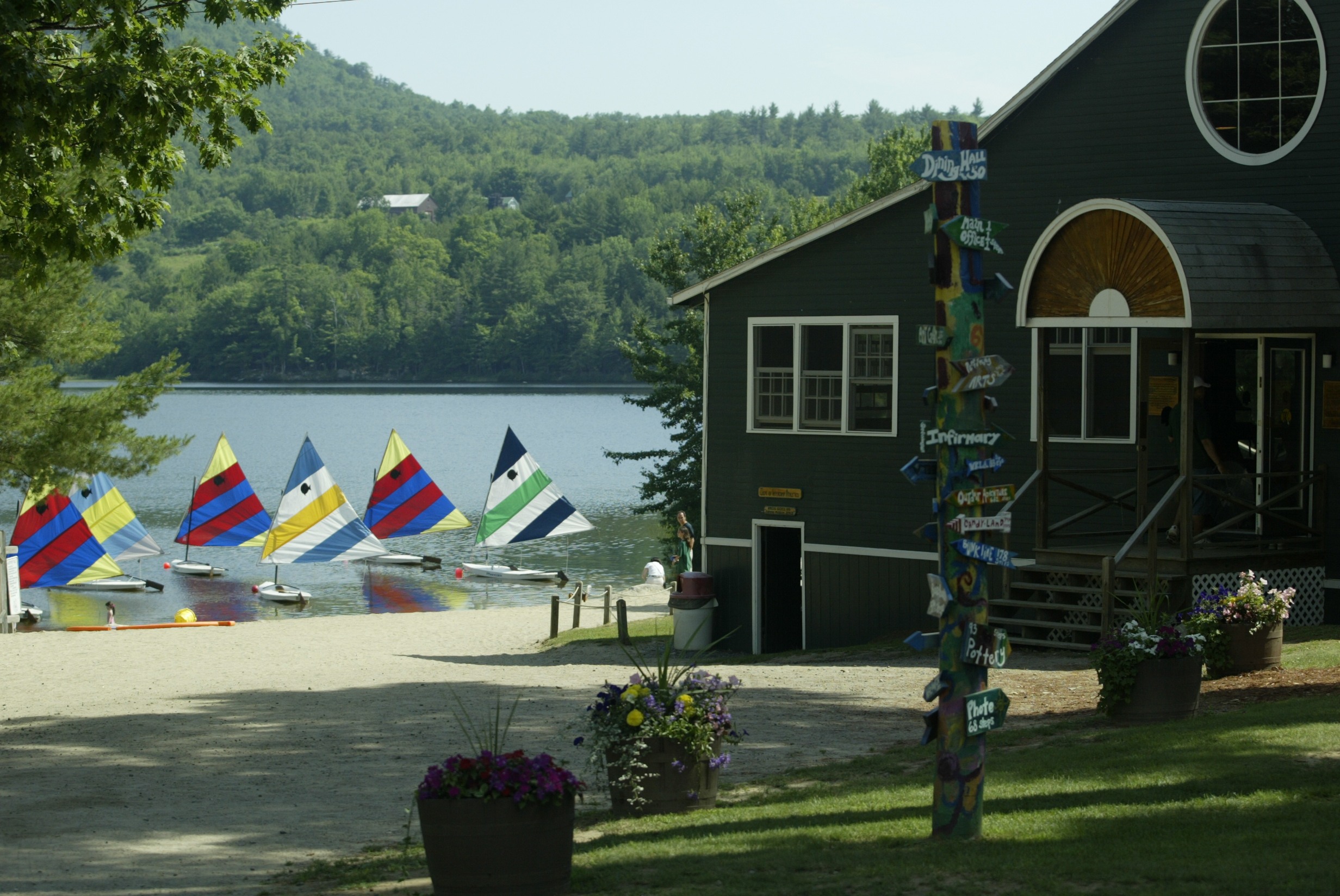 This is a picture of sail boats at Camp Wekeela with the Performing arts building to the right.